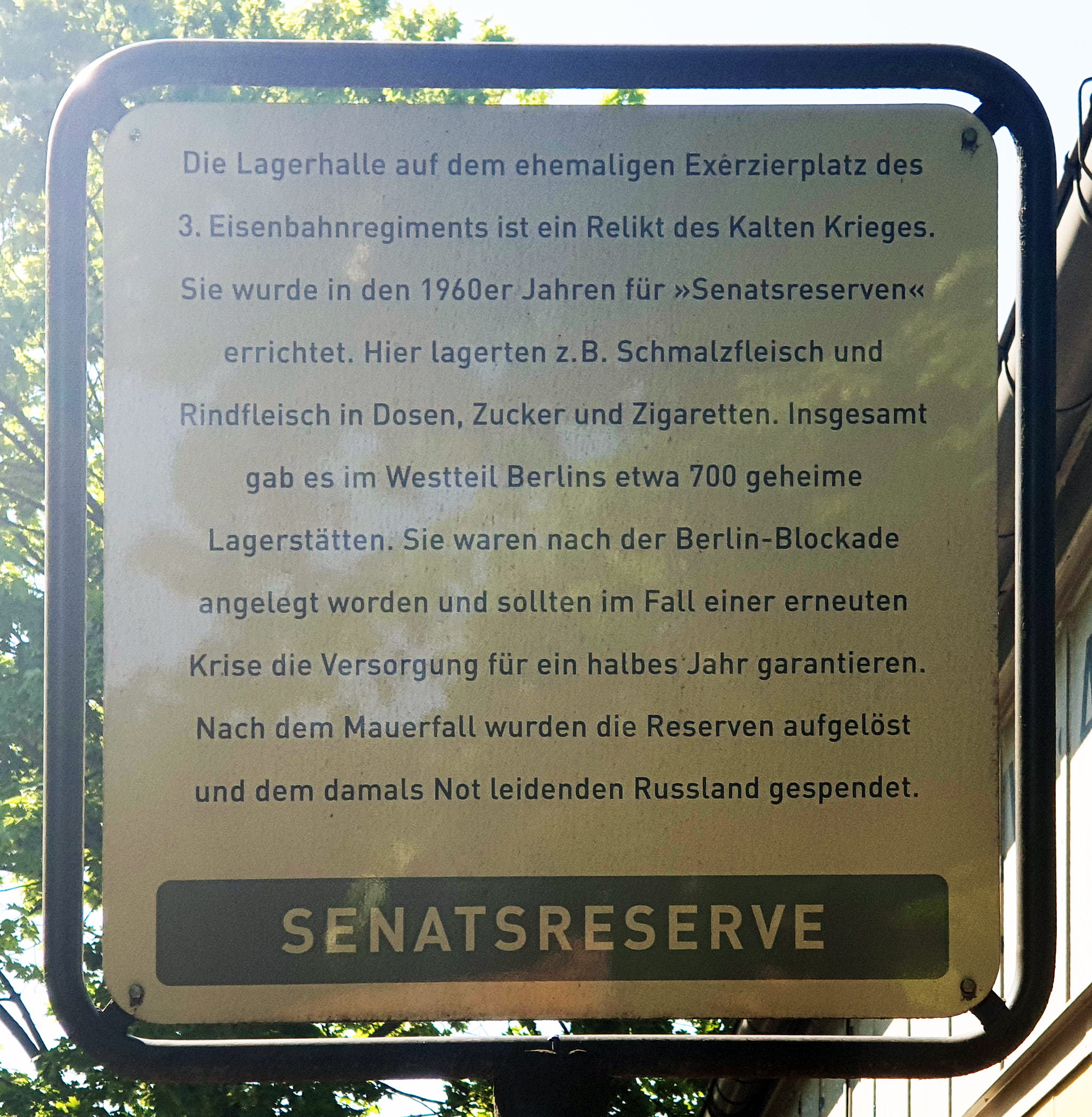 Memorial plaque, Senatsreserve, Werner-Voß-Damm 60, Berlin-Tempelhof, Deutschland